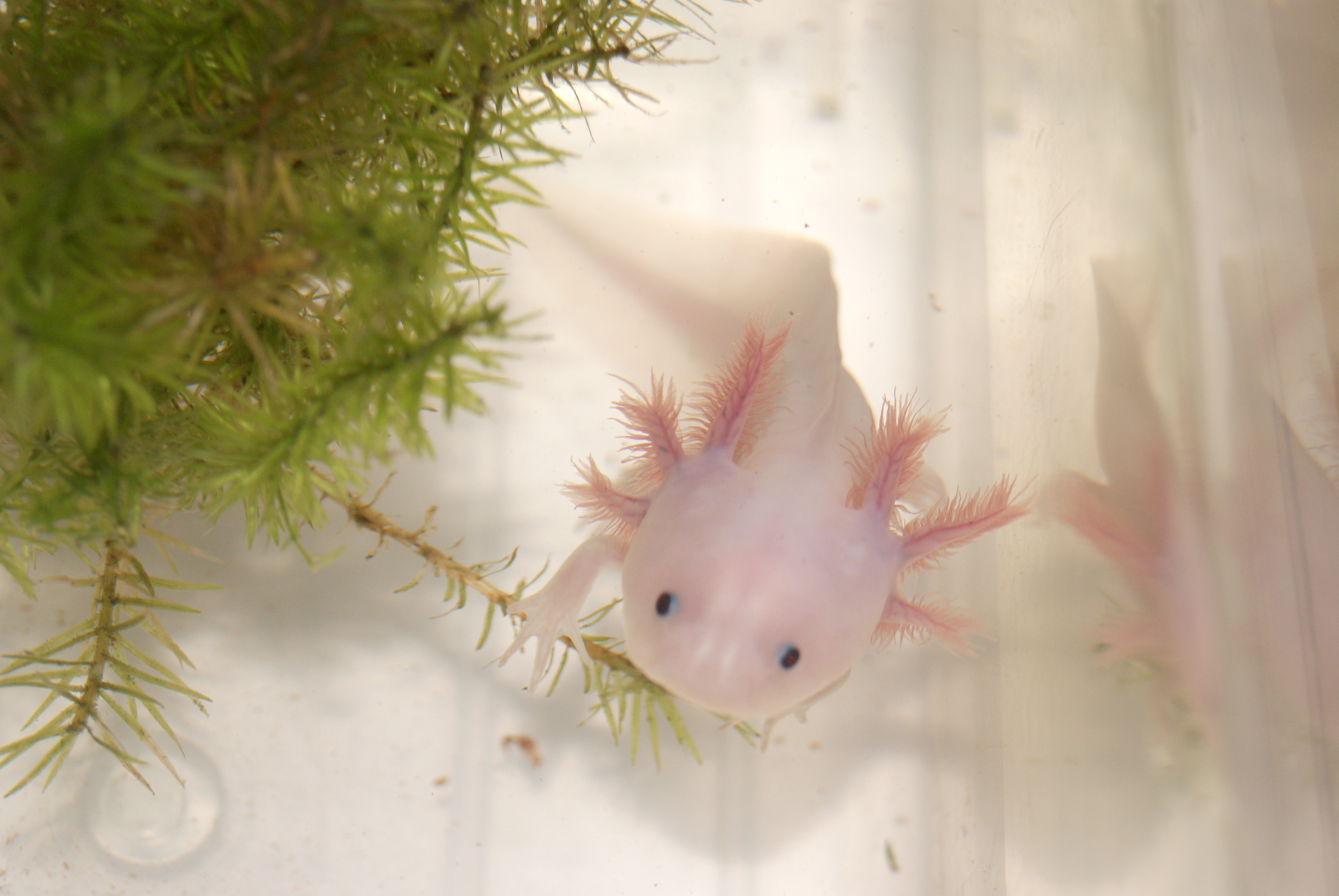 Axolotl(Ambystoma mexicanum)